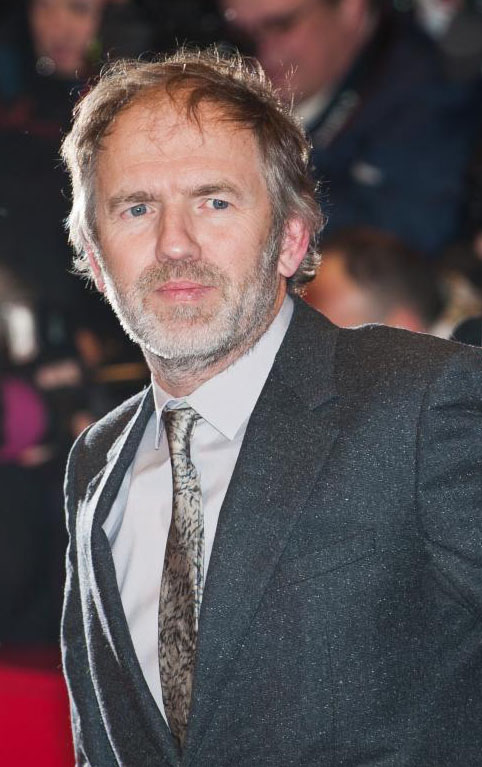 Dutch photographer, music video and film director, member of the jury, Opening of the 62nd Berlin International Film Festival